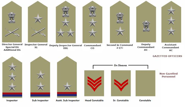 Ranks of CAPF